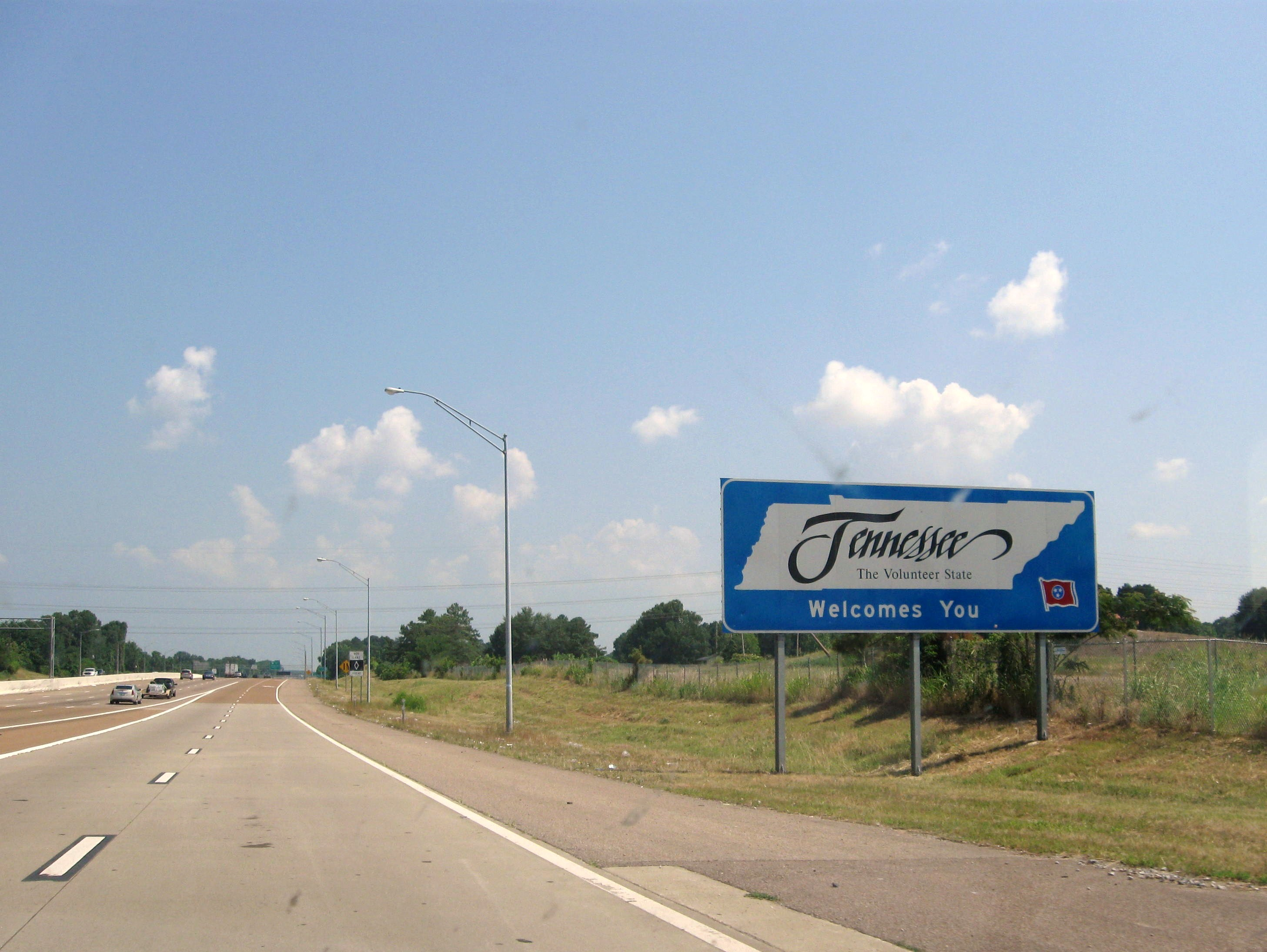 I-55 Tennessee Welcome Sign